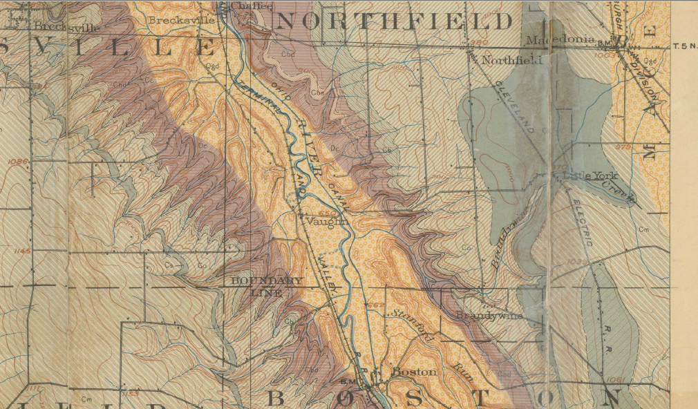 CuyahogaValleyNationalPark geologic map, CC-Cleveland Shale, Cbe and Cbd - Bedford Shale, Cb - Berea Sandstone, Qgd-Pleistocene glacial